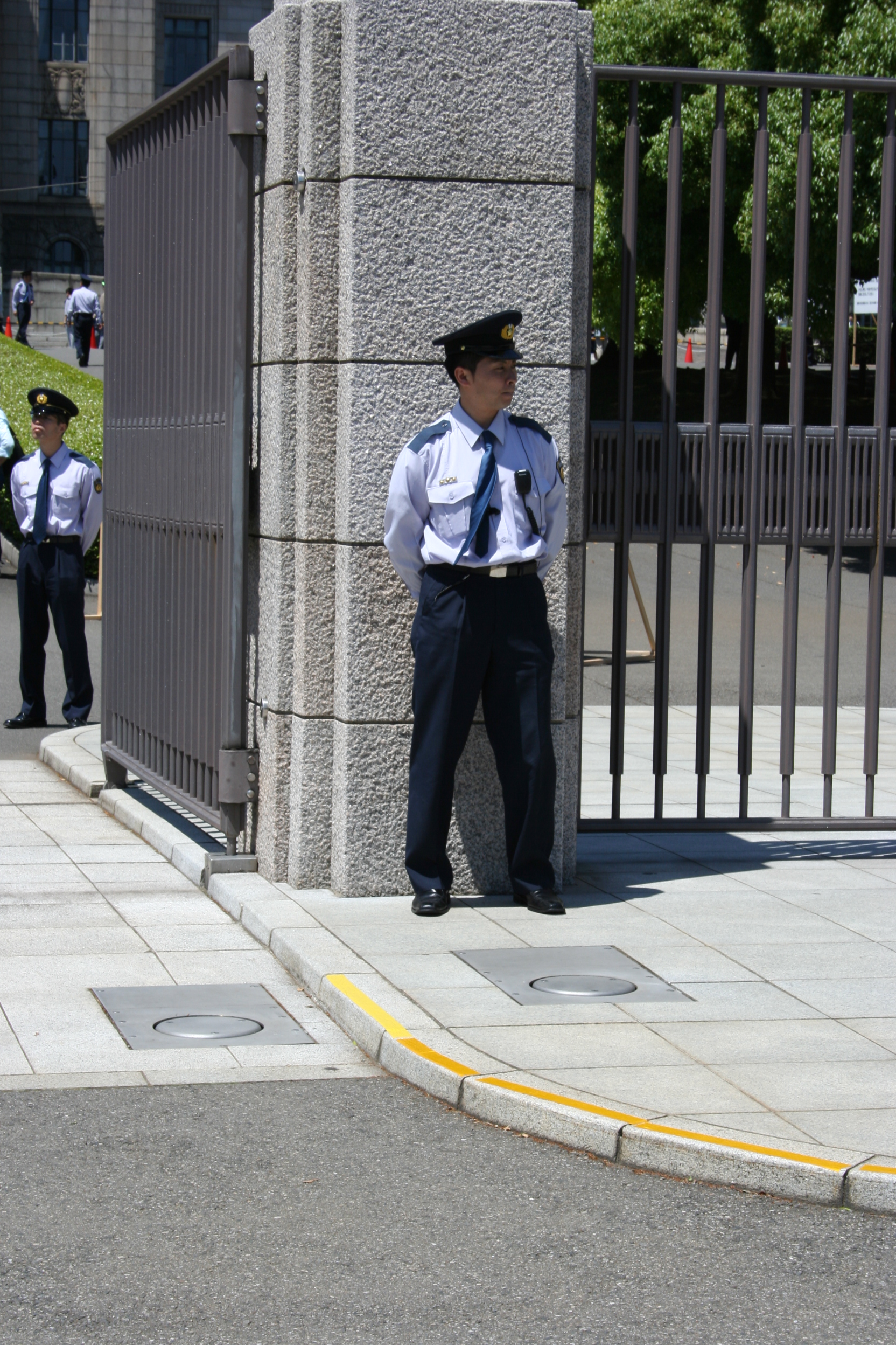 Guard officer(Eishi/衛視 in Japanese) of Japanese National Diet(House of Councillors), standing at the main gate of Japanese National Diet Building.